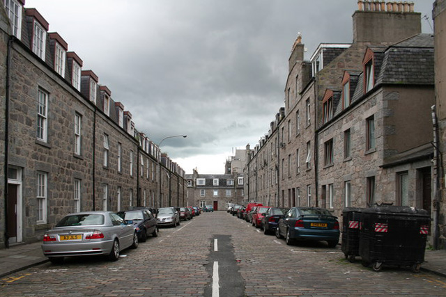 Picture of cobbled Craigie Street, Aberdeen, Scotland.